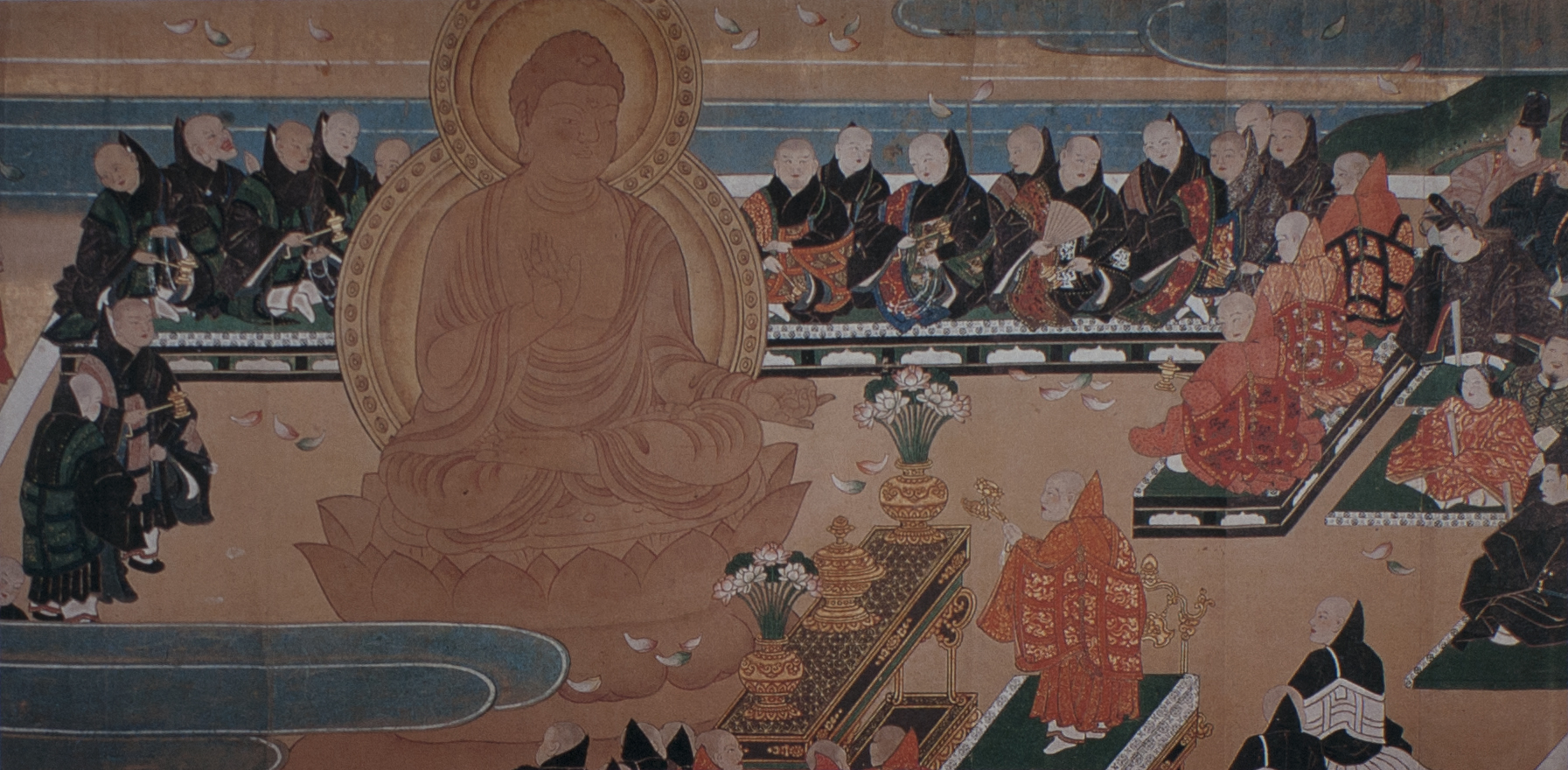 1536, by Rinken, Todaiji, Nara, Japan